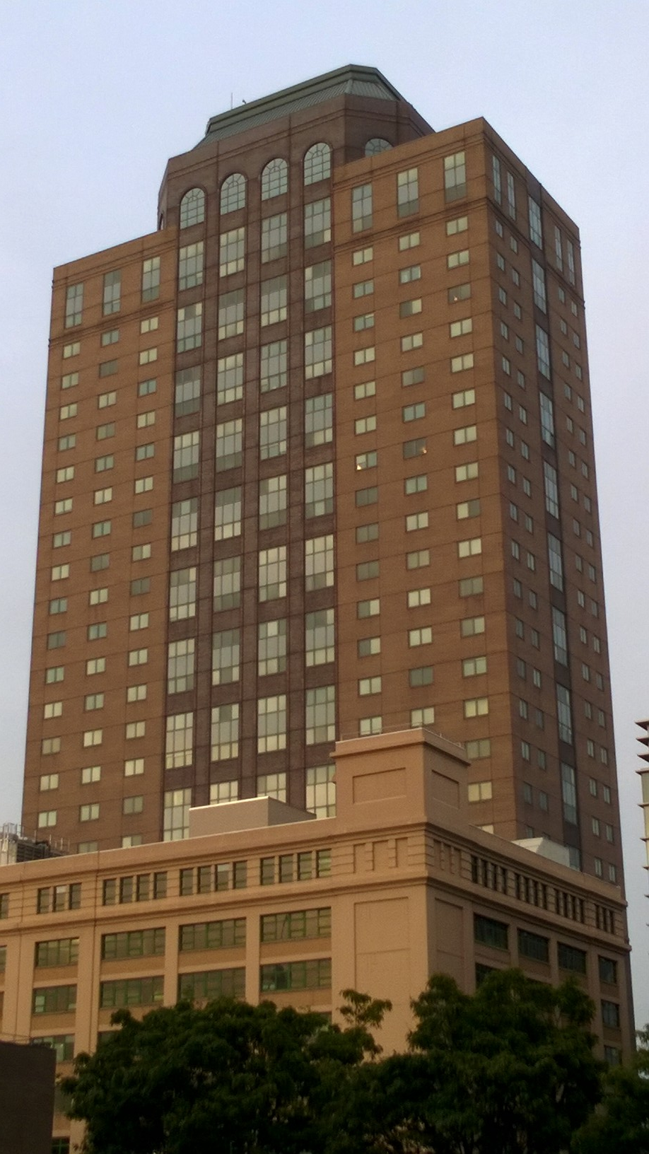 Jehovah's Witnesses Dormitory building in Downtown Brooklyn.